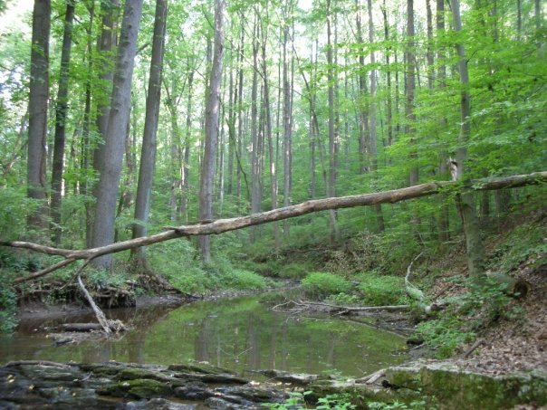 Northward view from the bank of Middle Run (the main creek), at the spot connecting Possum Hollow Trail and Snow Goose Trail, in Middle Run Valley Natural Area.